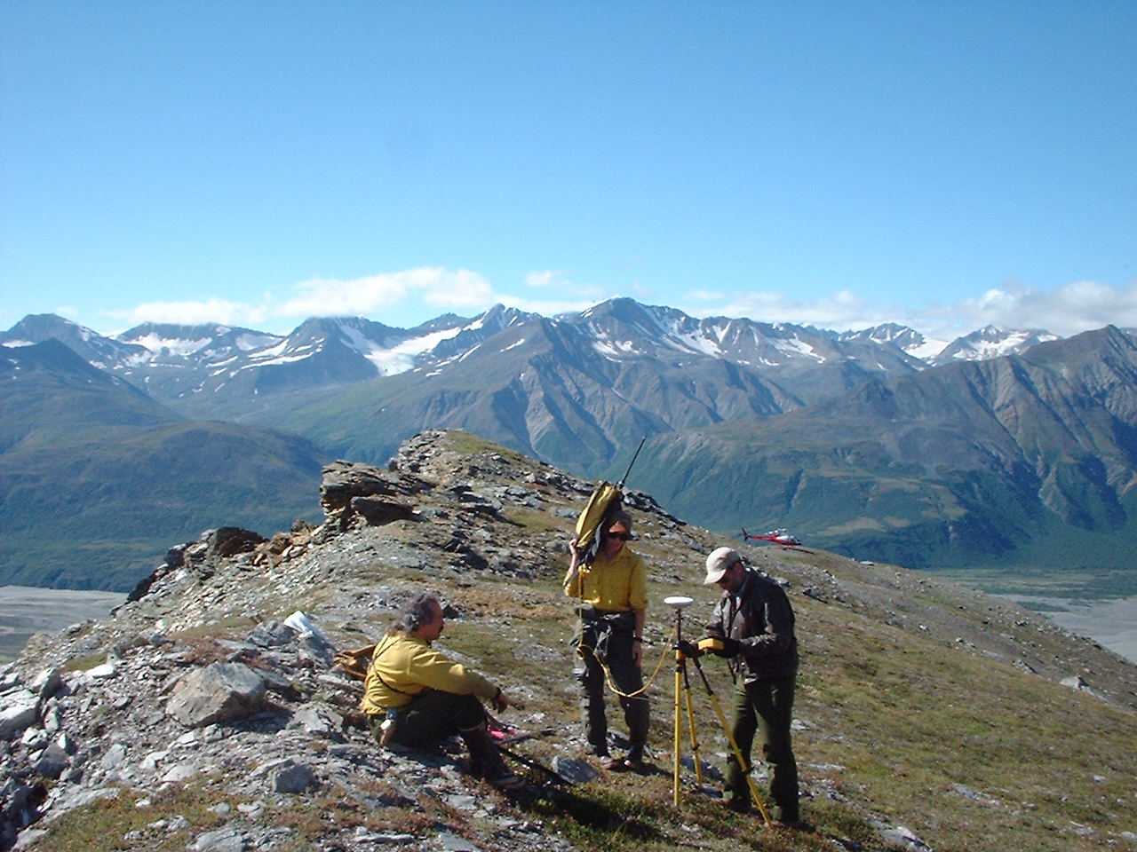 BLM Cadastral Field Surveyors on ridge top - 2002The Bureau of Land Management has a unique mission within the Department of the Interior. It's the scope of our work that sets us apart. We manage activities ranging from outdoor recreation to livestock grazing, from mineral development and energy production to conservation of natural, historical and cultural resources. More than 10,000 employees across the nation take on the responsibility of protecting our resources and how they're used on public lands. Our people take an active role in serving the communities adjacent to our public lands. And we balance the country's population growth with its natural resources - a consistent source of new challenges for our creative employees to face. Get to know more about our multiple-use mission and where we work through these photos of #BLMcareers. Photo by BLM Alaska.